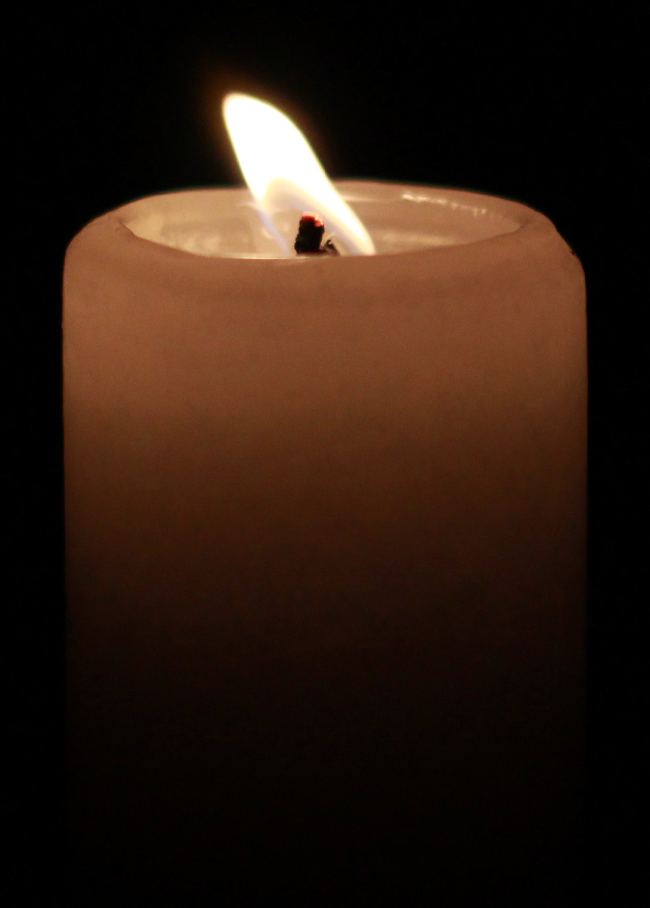 Burning candle